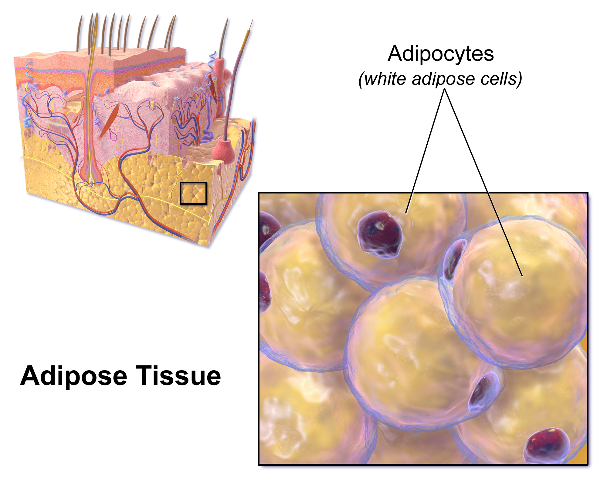 Adipose Tissue. See a full animation of this medical topic.